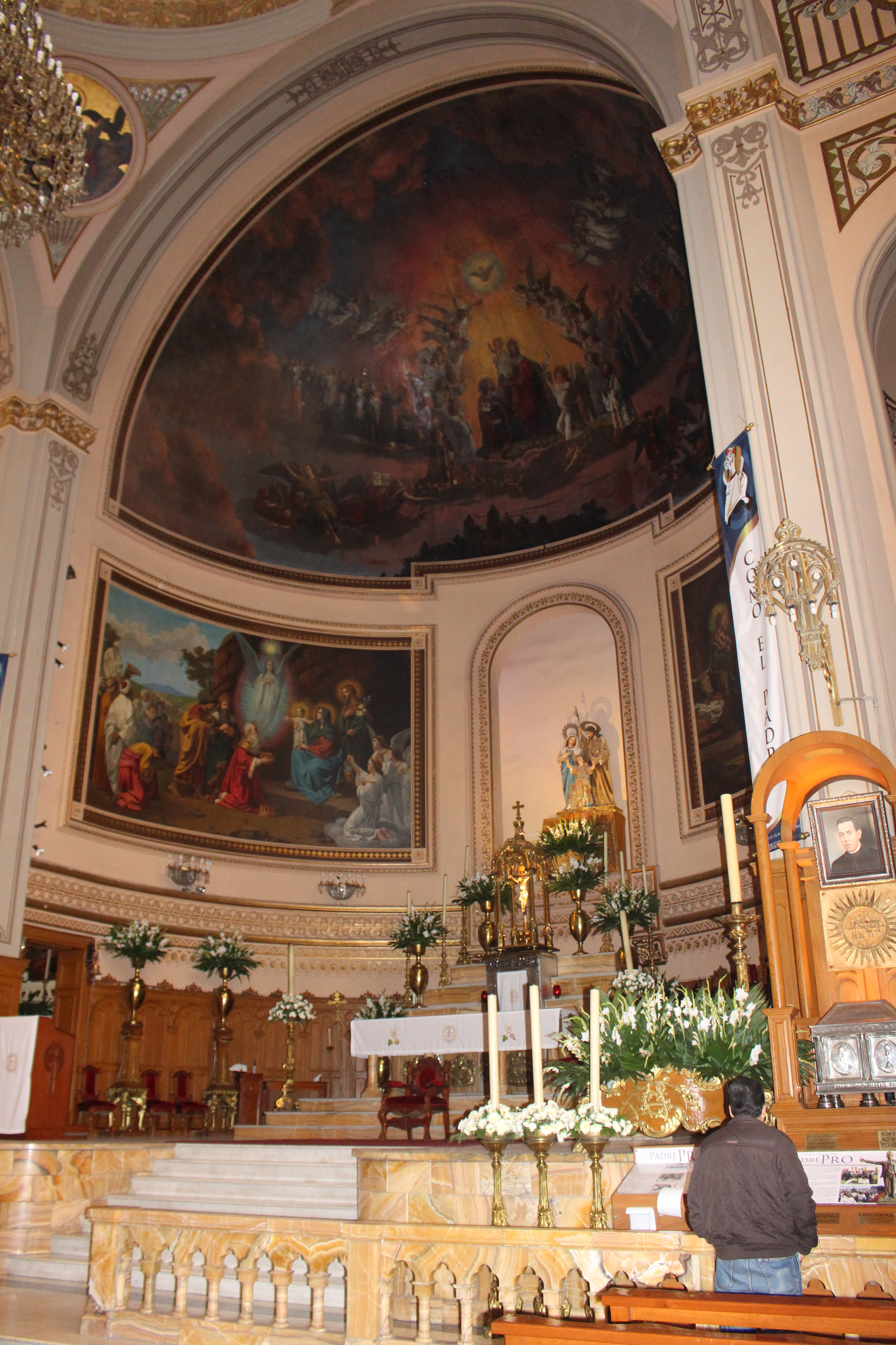 Altar with a central dome, some murals and ornaments such as flowers and candlesticks. Ubicated in the Parroquia de la Sagrada Familia, colonia Roma, Mexico City.